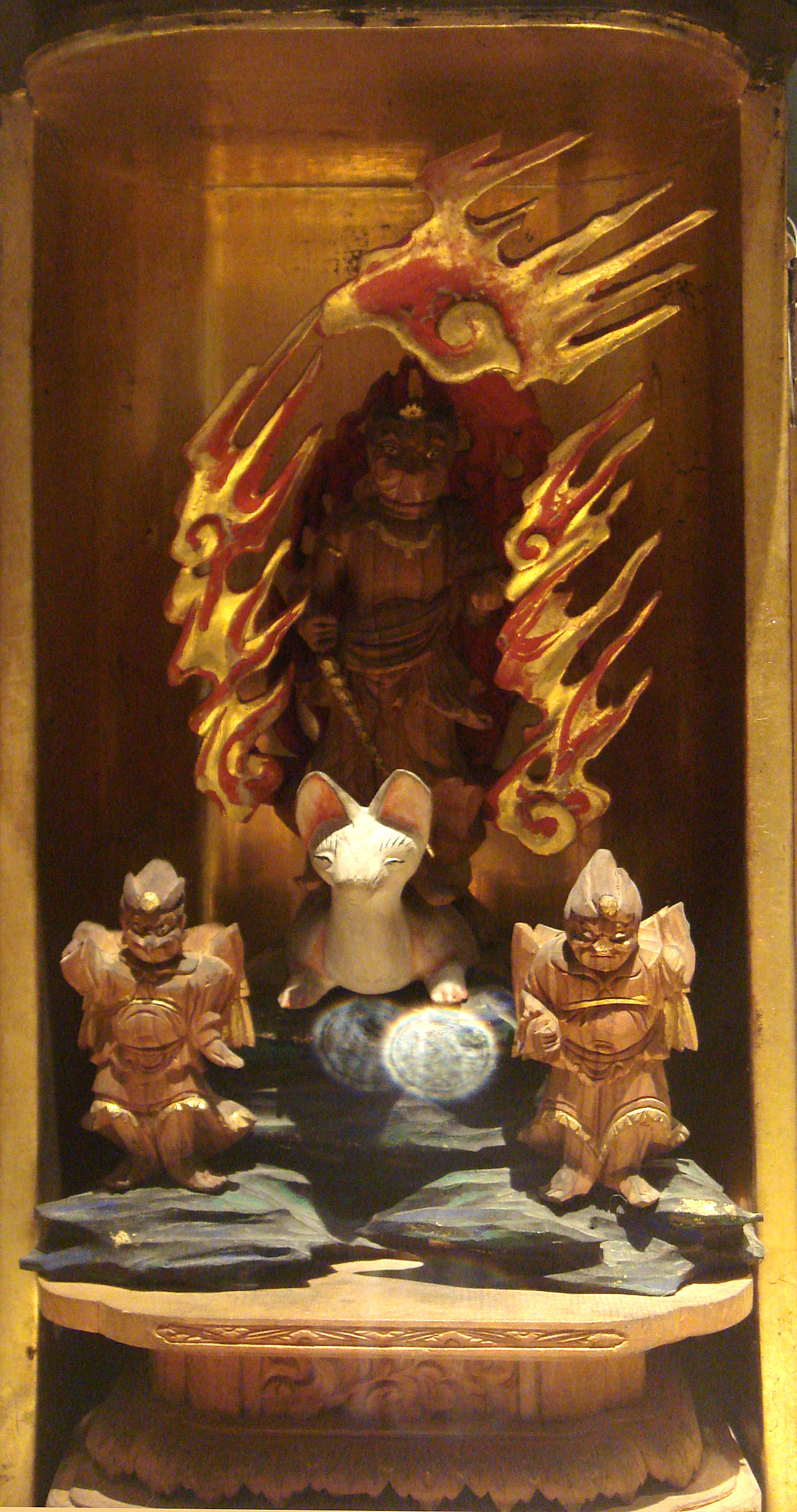 Izuna_Gongen_the_circumstancial_appearance_of_Mount_Izuna